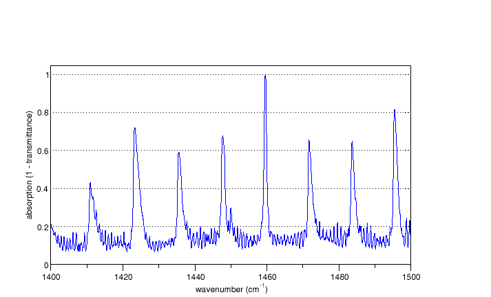 simulated spectrum Asymmetric CH bending vibration